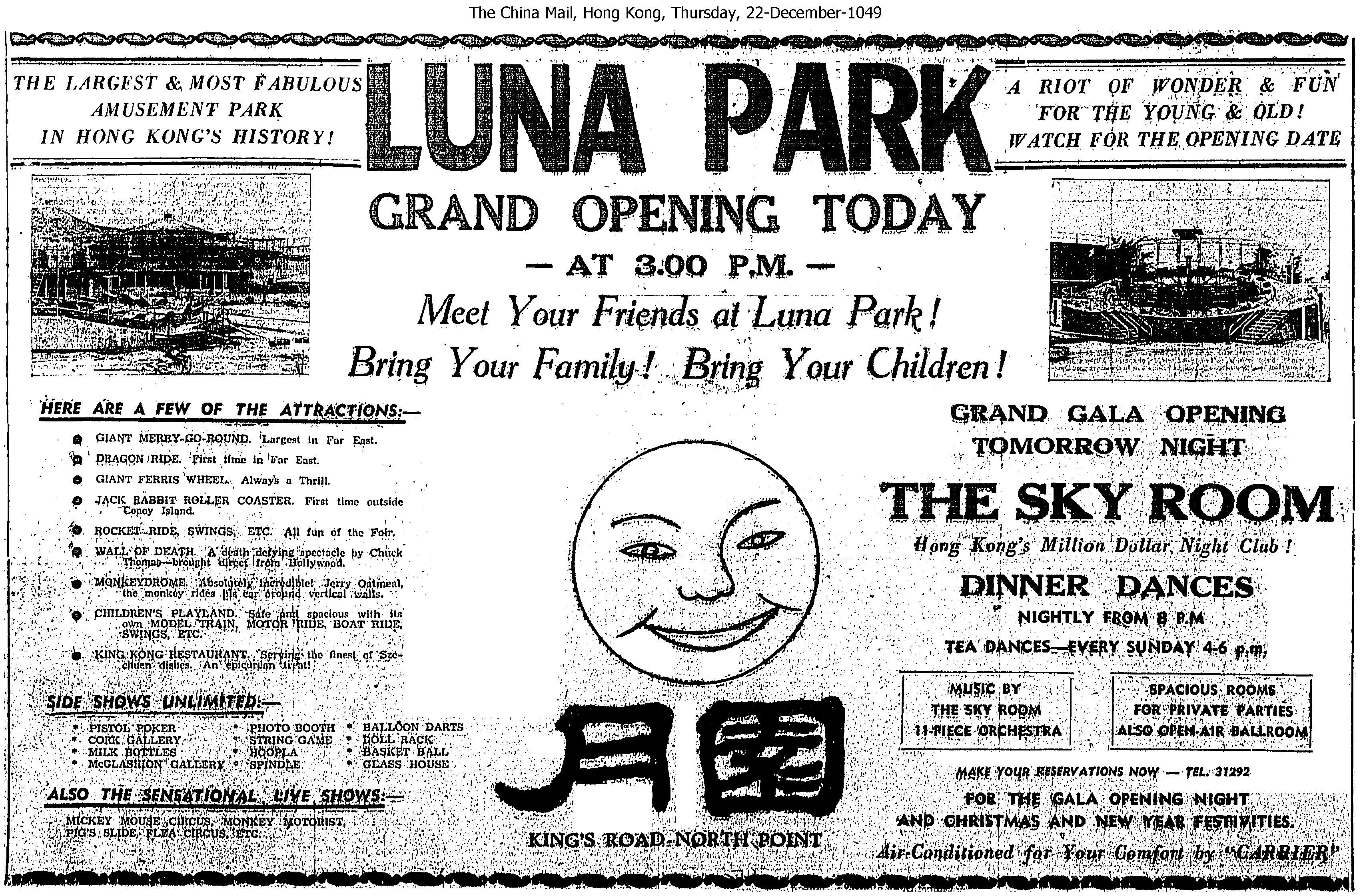 Luna Park's Advertisement in 22-Dec-1949